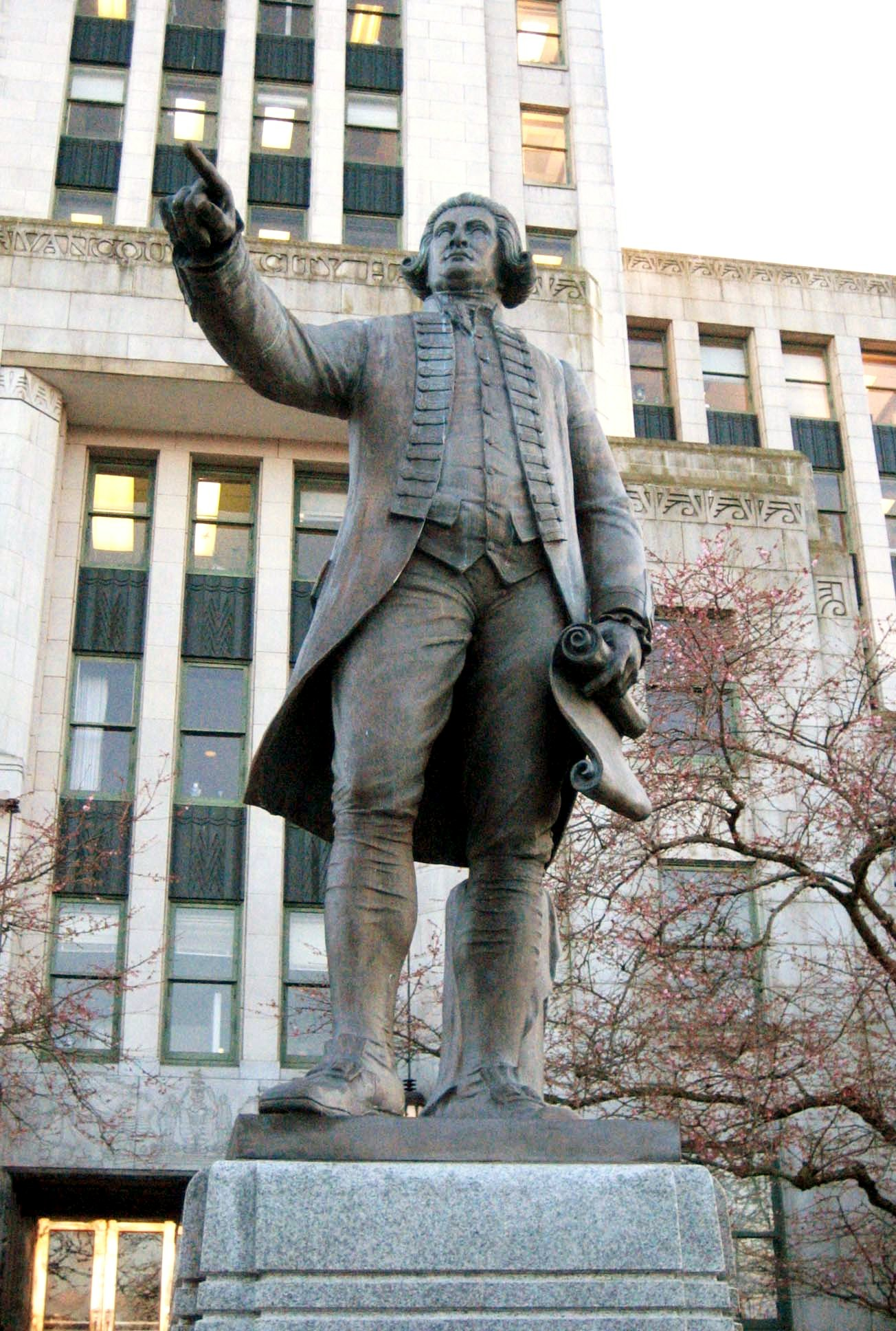 A statue of George Vancouver (what he was thought to look like) outside Vancouver City Hall.